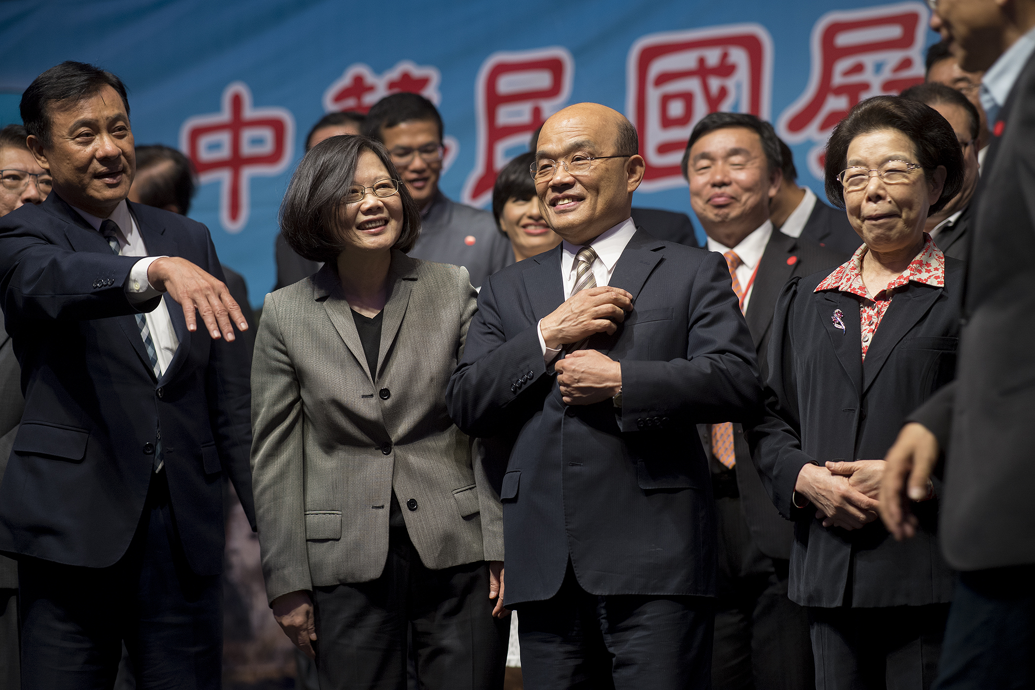 授權方式及範圍：中華民國總統府│政府網站資料開放宣告 Authorization Method & Scope: Office of the President, Republic of China (Taiwan) | Government Website Open Information Announcement